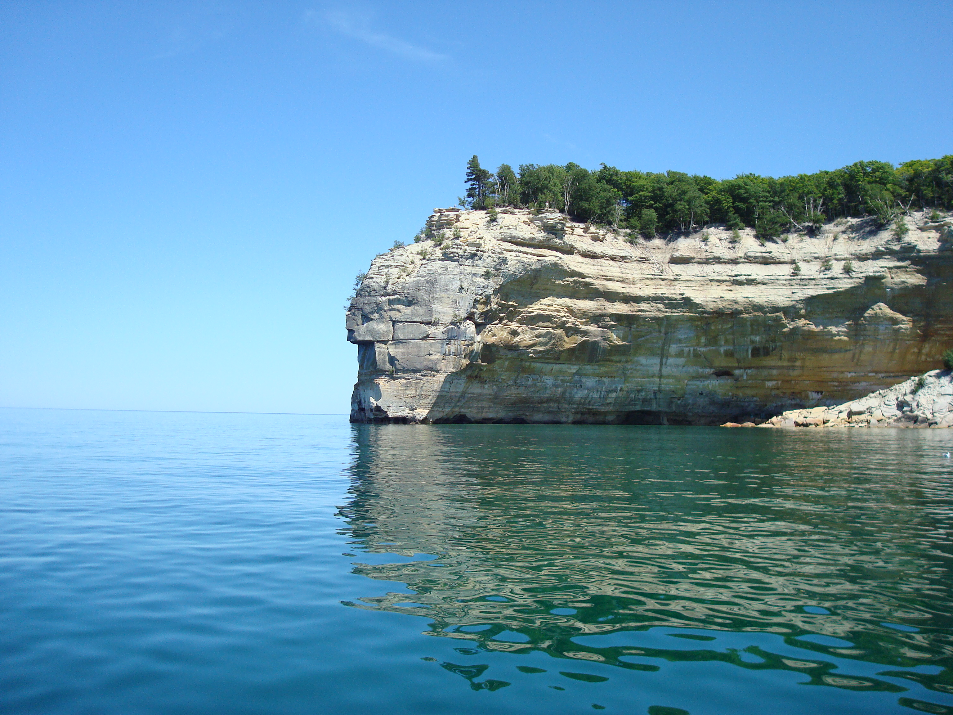 Indian Head cliff at Pictured Rocks National Lakeshore in Michigan